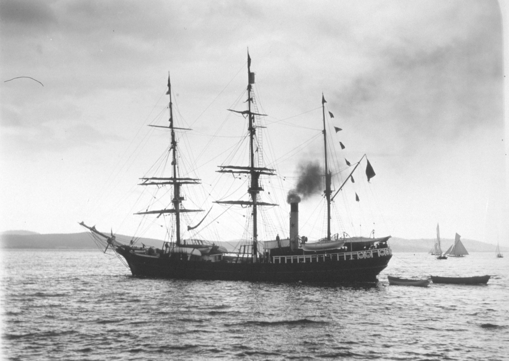 Expedition ship SS Southern Cross in the Derwent, Tasmania, used at The British Antarctic Expedition 1898–1900. She was built in Norway in 1886 as whaling ship Pollux.